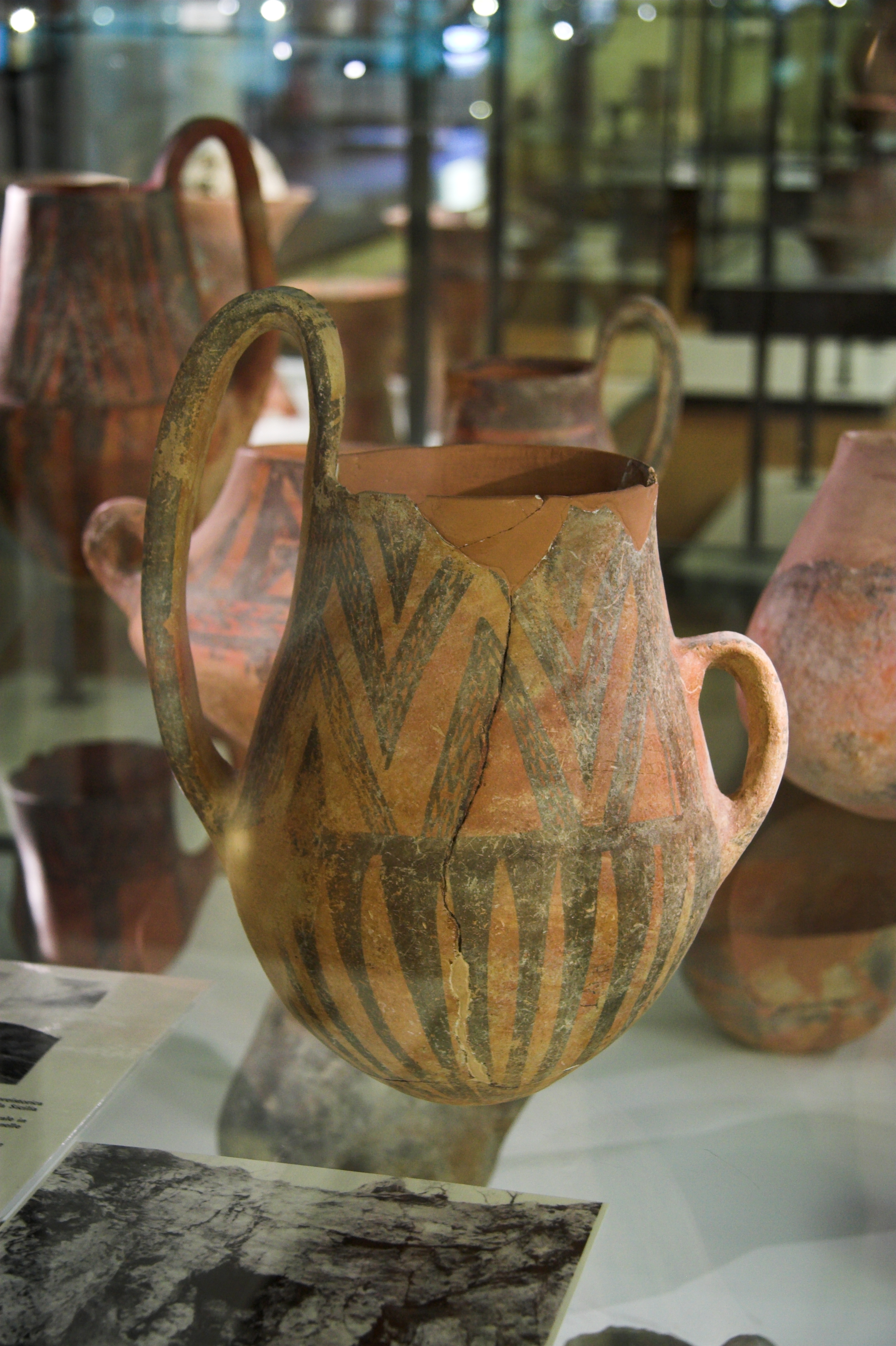 Pitcher in Castelluccio style. Ticchiara, Sicilian Early Bronze Age. Archaeological Museum of Agrigento.